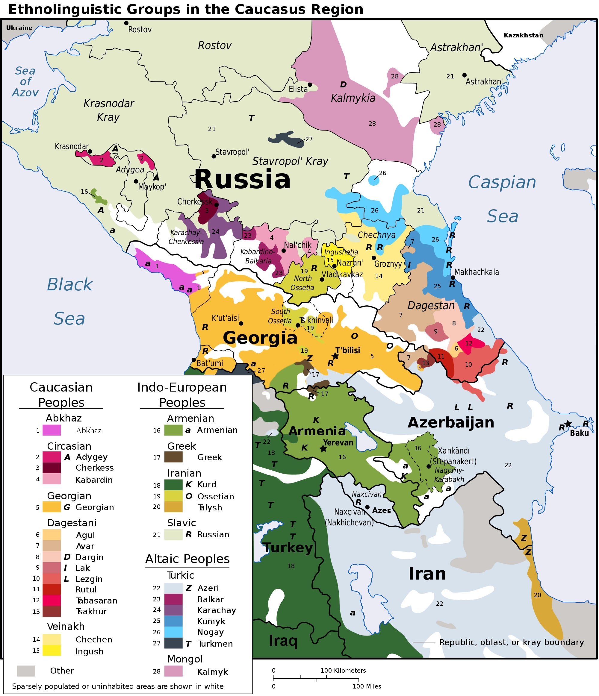 Caucasus-ethnic-Groups (jpg example)